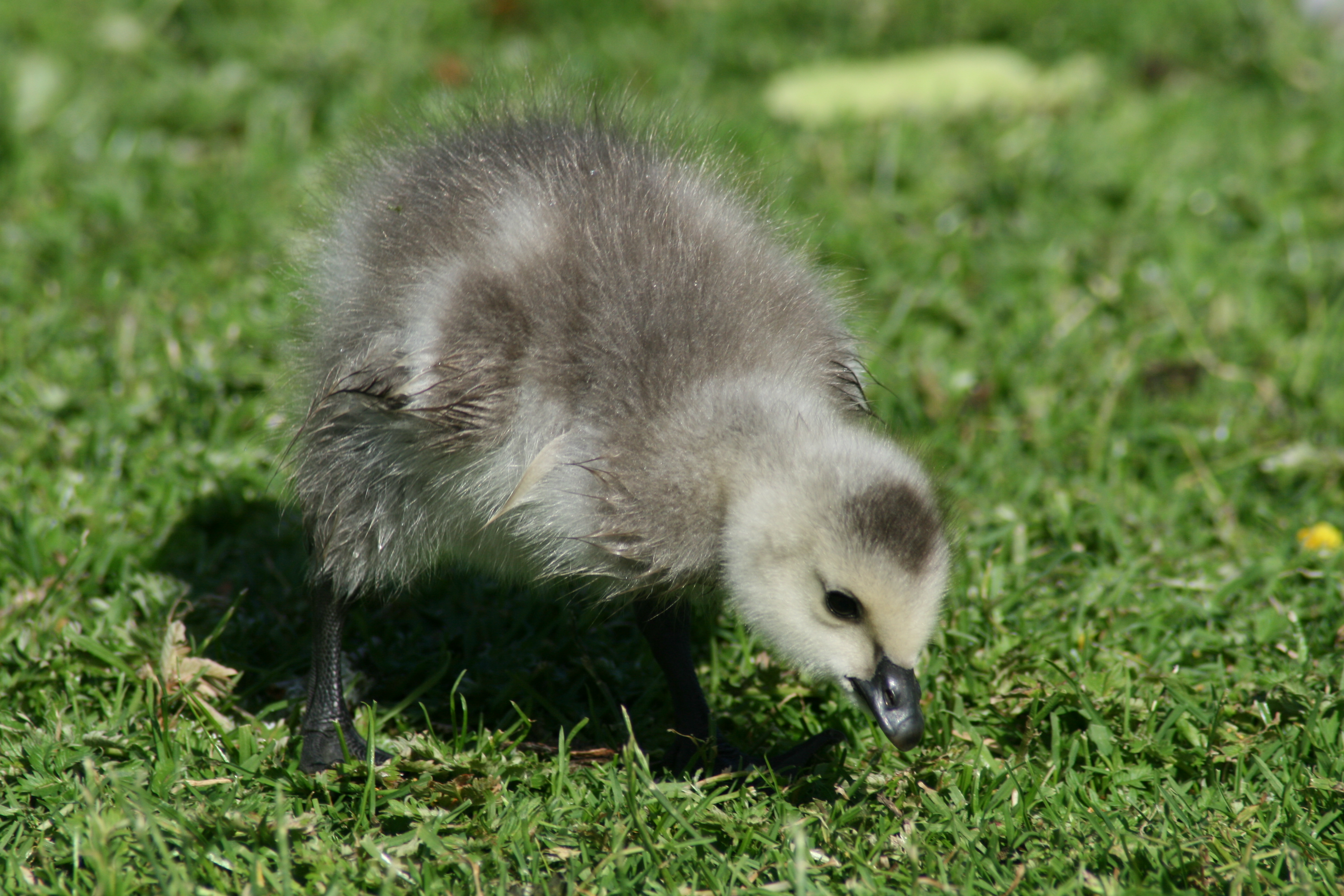 Branta leucopsis, young one, seen in Djurgården, Stockholm.